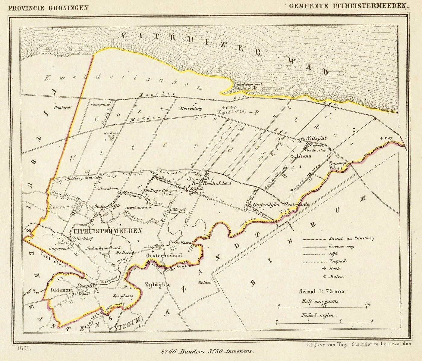 Map from 1867 of the former municipality of Uithuistermeeden in the extreme north of the Netherlands (Province of Groningen). The village is now called Uithuizermeeden. The former municipality also encompassed the hamlets of Buitendijks-Oosteinde, Oldenzijl, Oosternieland, Oude Dijk, Oude schip, Paaptil en De Roode School. Al these villages now form part of the much larger municipality of Eemsmond, created in 1990.